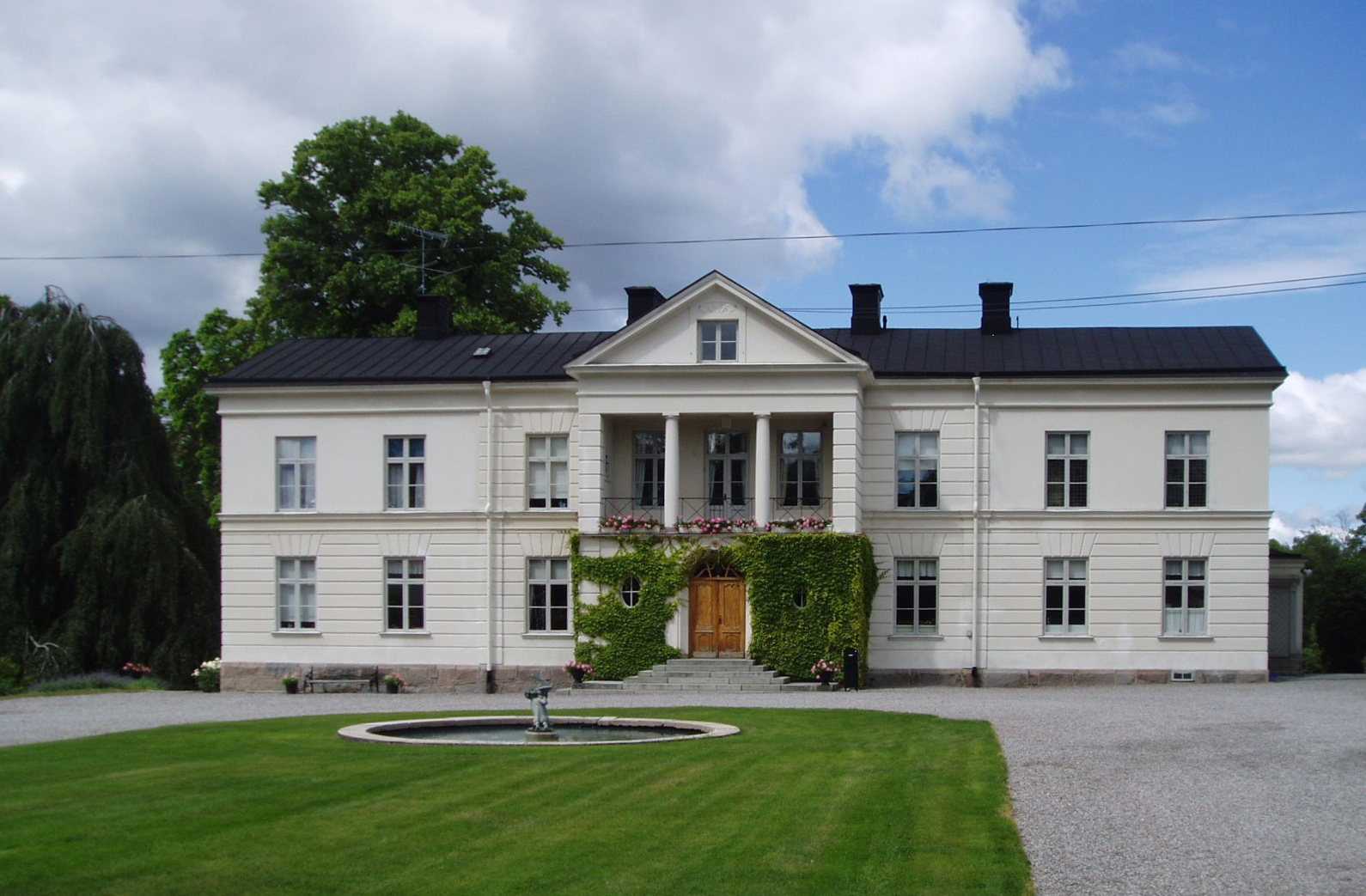 mansion, Antuna gård, Upplands-Väsby municipality, Sweden